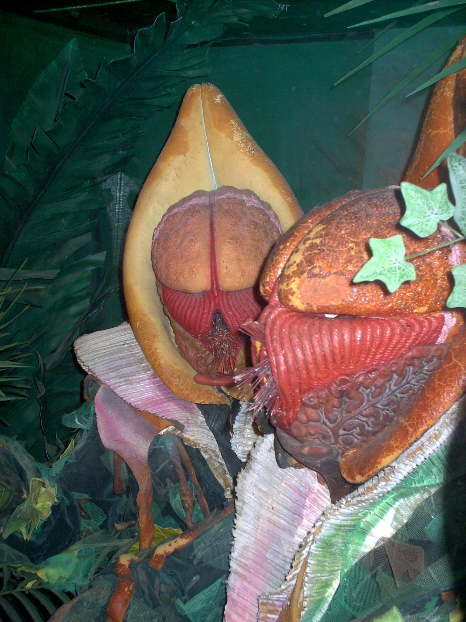 Vervoid Doctor Who Experience